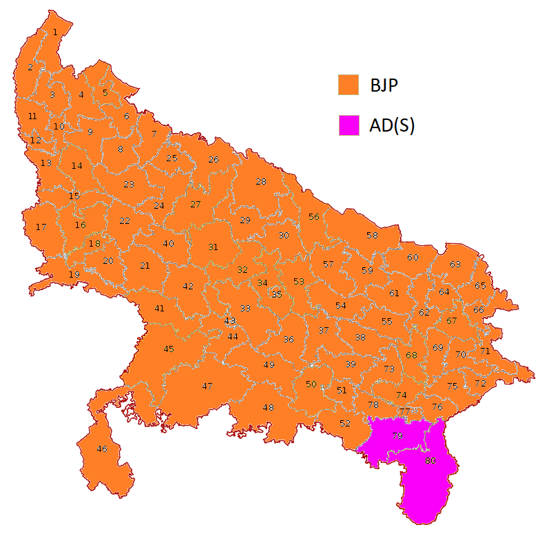 Temporary image of NDA seat sharing for General Election, 2019